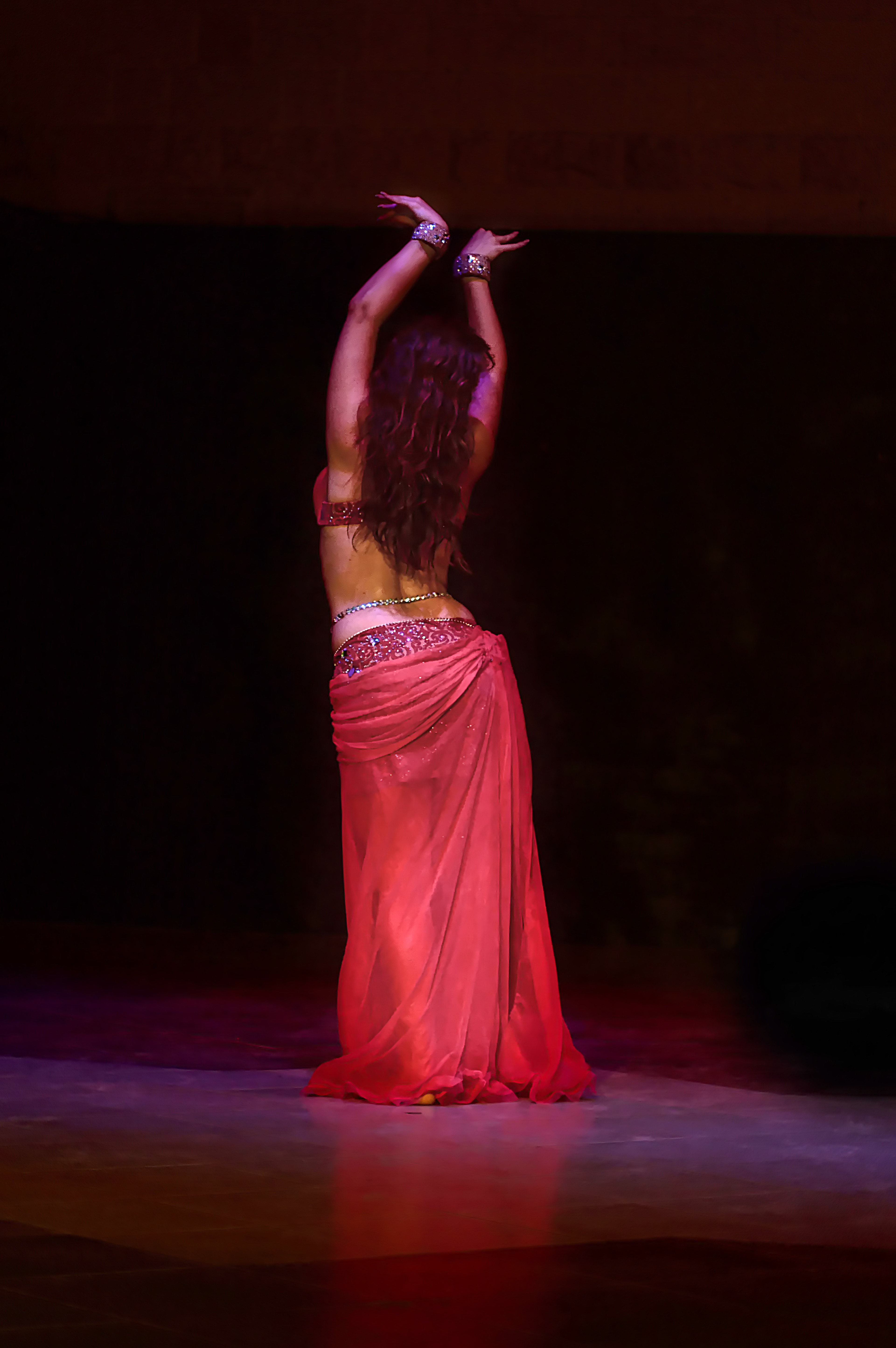 A pose of the belly dancer This is an image from Egypt